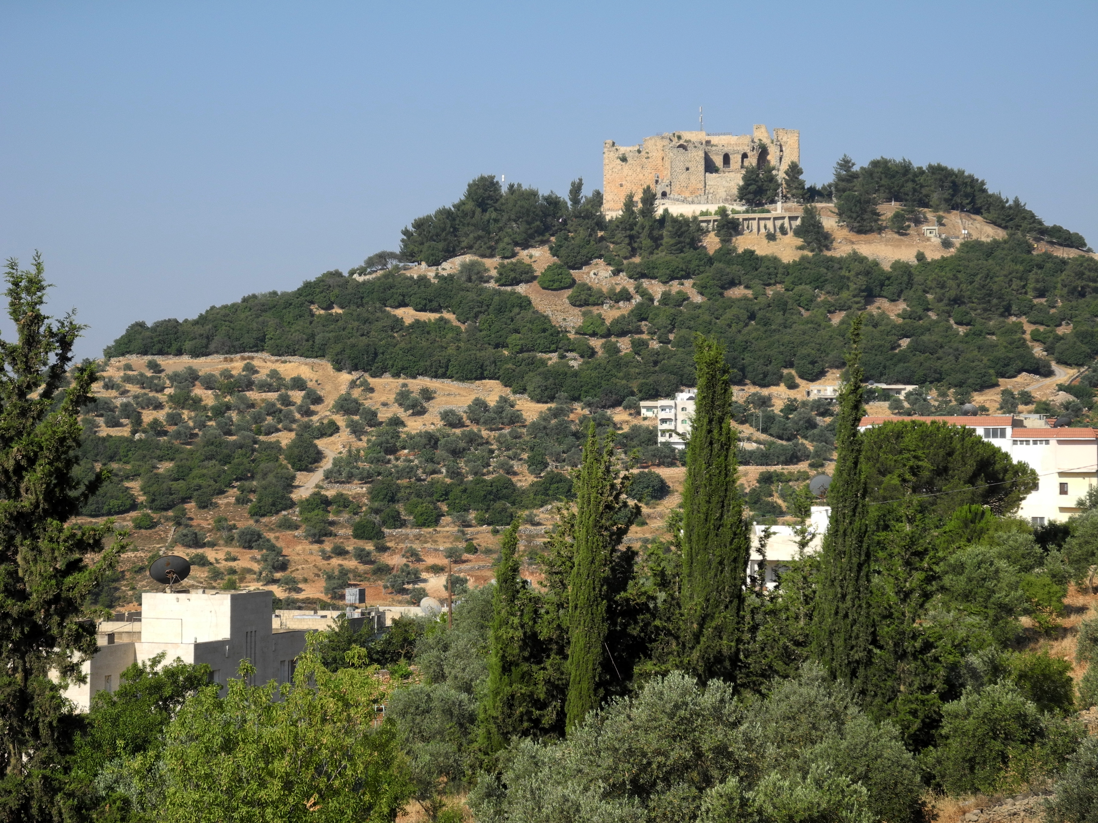 Ajloun castle in Jordan built by Saladin